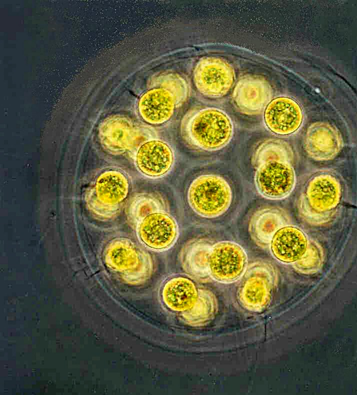 Images have been made by Nikon Eclipse E 600 light microscope using an original magnification of 400x - 600x range, at South-Transdanubian Emvironment Protection Inspectorate, Laboratory for Environment Protection (Hungary). Photos of algae have been taken from samples of natural surface waters of South-Transdanubian region; the majority originated from river Dráva and lake Baláta. Images have been made by phase contrast setting, whereas a blue color filter has been used instead of a green one recommended by the literature. The reason of the change is that although the green filter gives a sharp image, it reflects the shades of gray color only. When using a blue color filter, the sharpness of the image is barely reduced, but the colors of the object are retained. Scientific names of algal speciei are found in the header of the images.